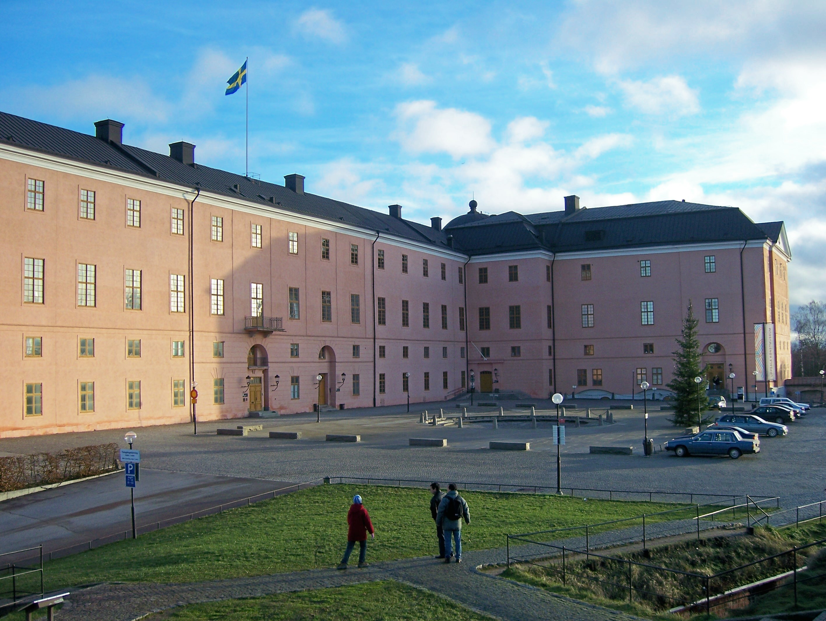 Uppsala Castle in Uppsala